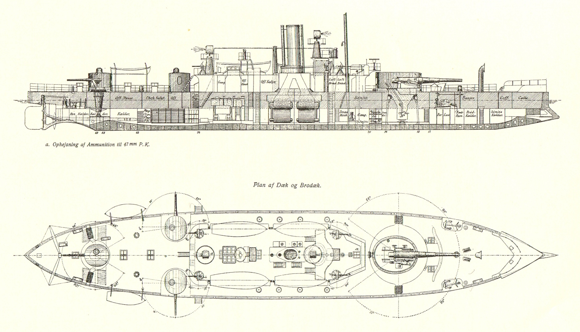 Plan of the Danish Coastal defence ship Skjold, launched 1896, and serving 1897 - 1929